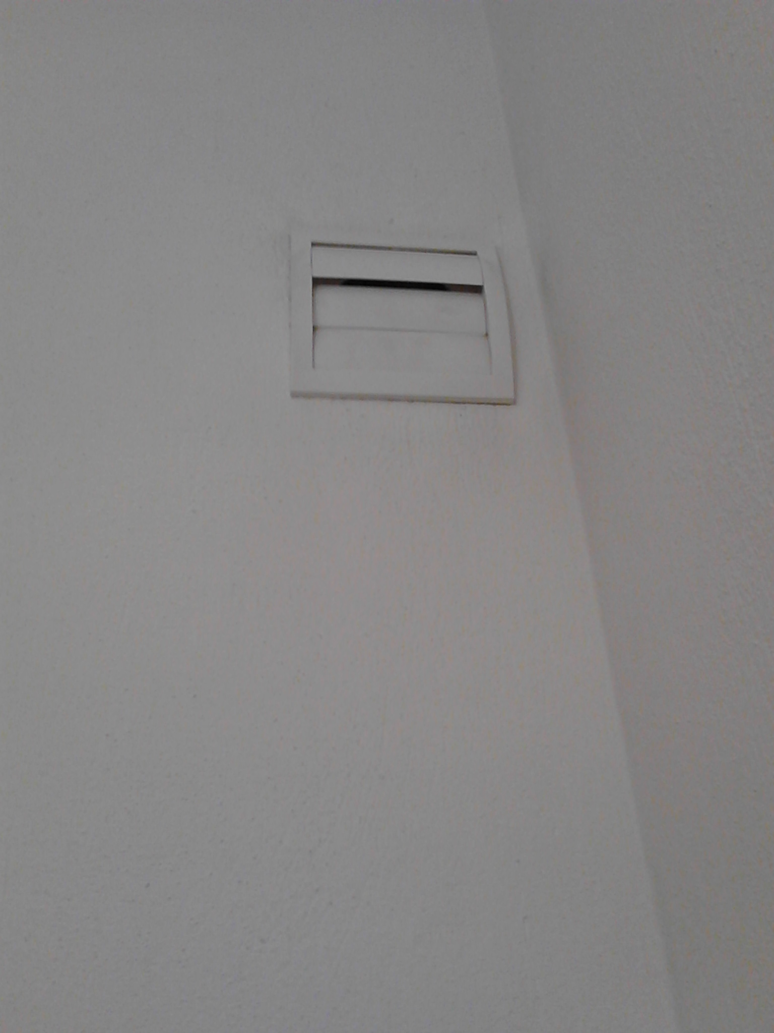 Gravity damper for canalized pellet stove